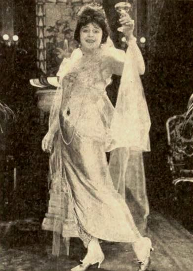 Still from the American mystery film The Queen of Hearts (1918) with Virginia Pearson, on page 38 of the September 21, 1918 Exhibitors Herald.